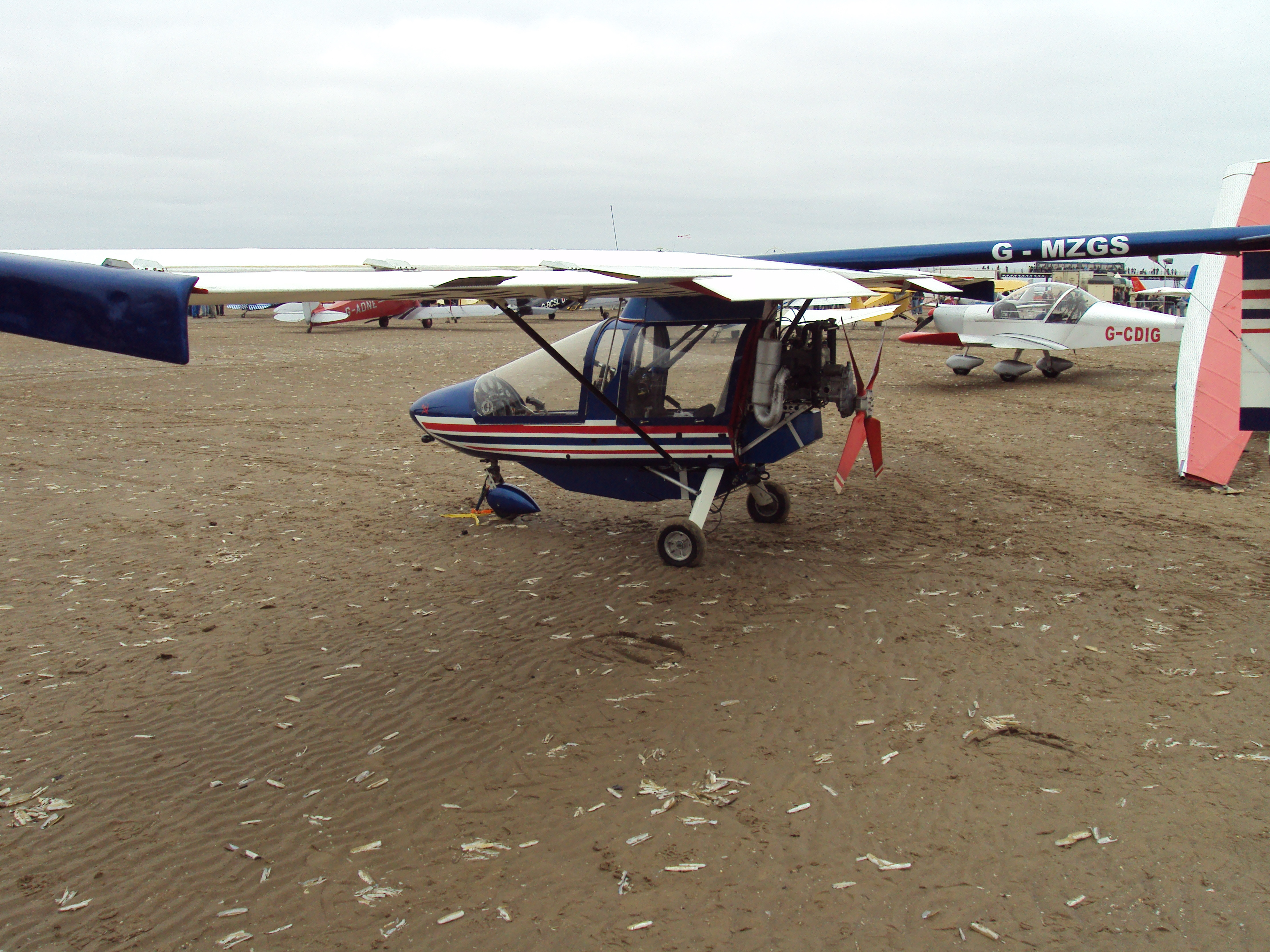 Light aircraft at the 2009 Southport Air Show, Merseyside, England.